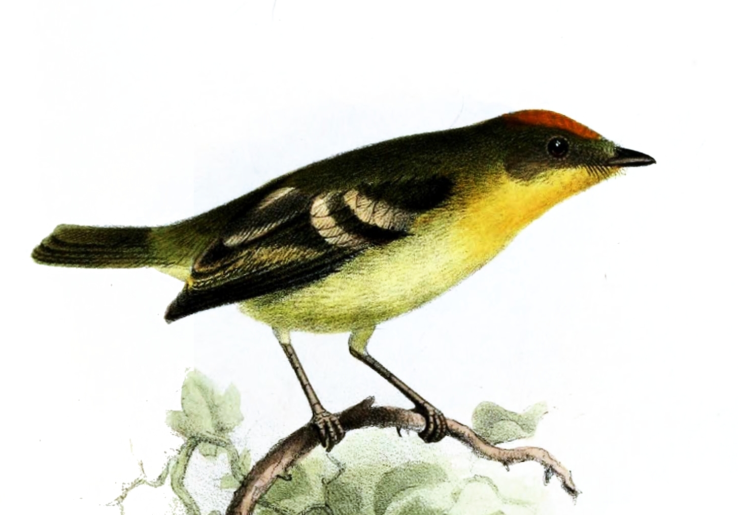 Adult of Handsome Flycatcher